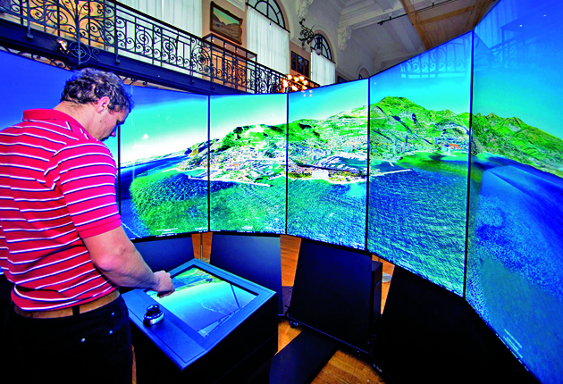 Image of Liquid Galaxy exhibit